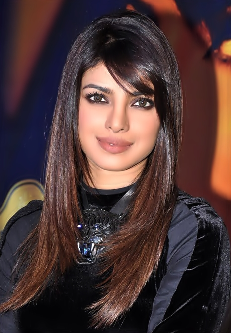 Priyanka Chopra at a promotional event for In My City